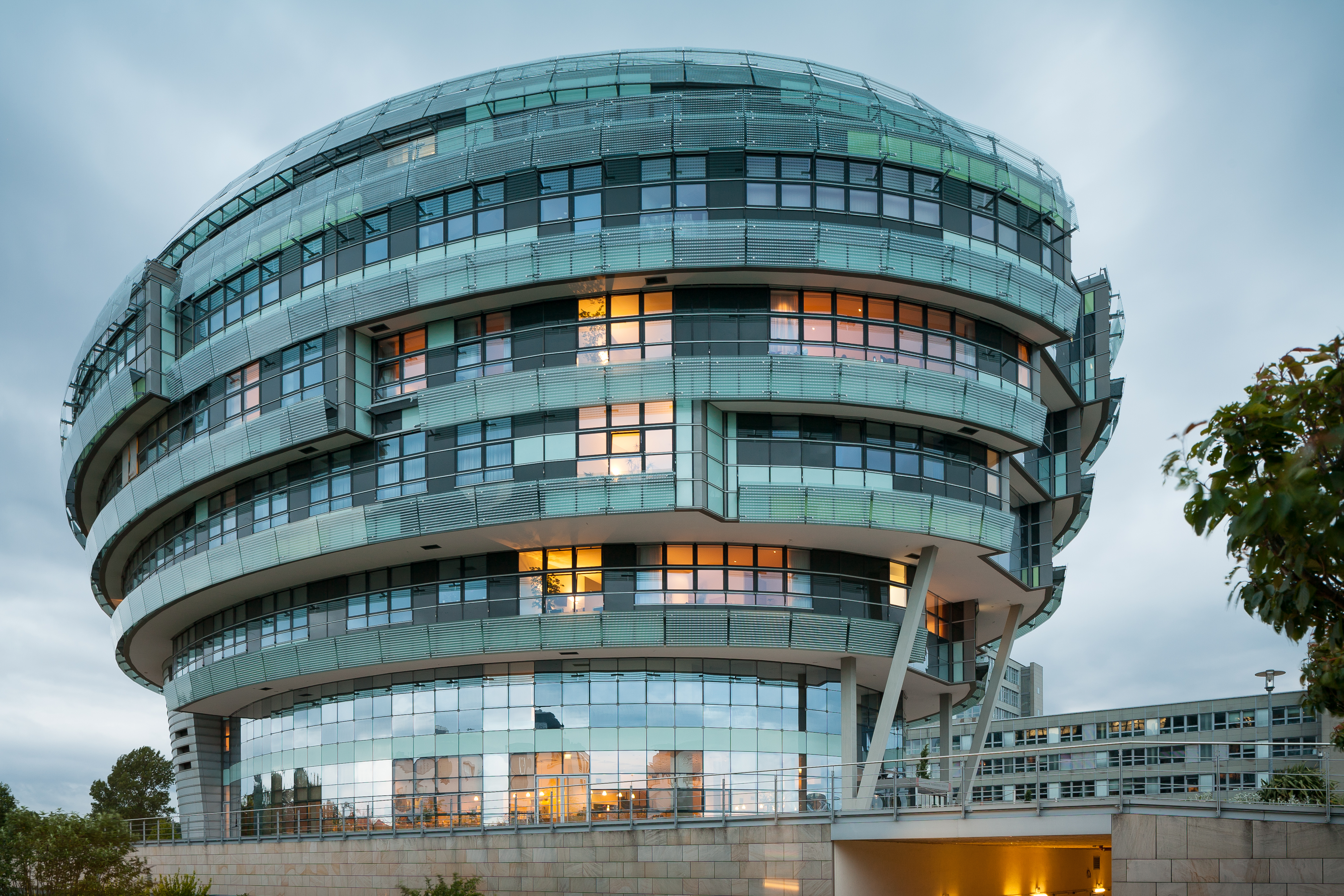 International Neuroscience Institute ("INI") located at Feodor-Lynen-Strasse and Rudolf-Pichlmayer-Strasse in Hanover, Germany.